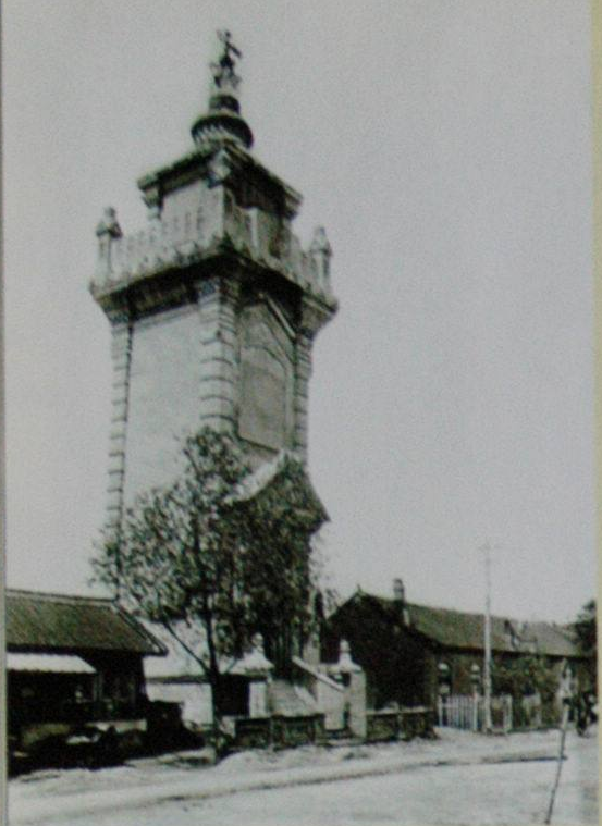 Jilin Station Tower Buliding in 1935